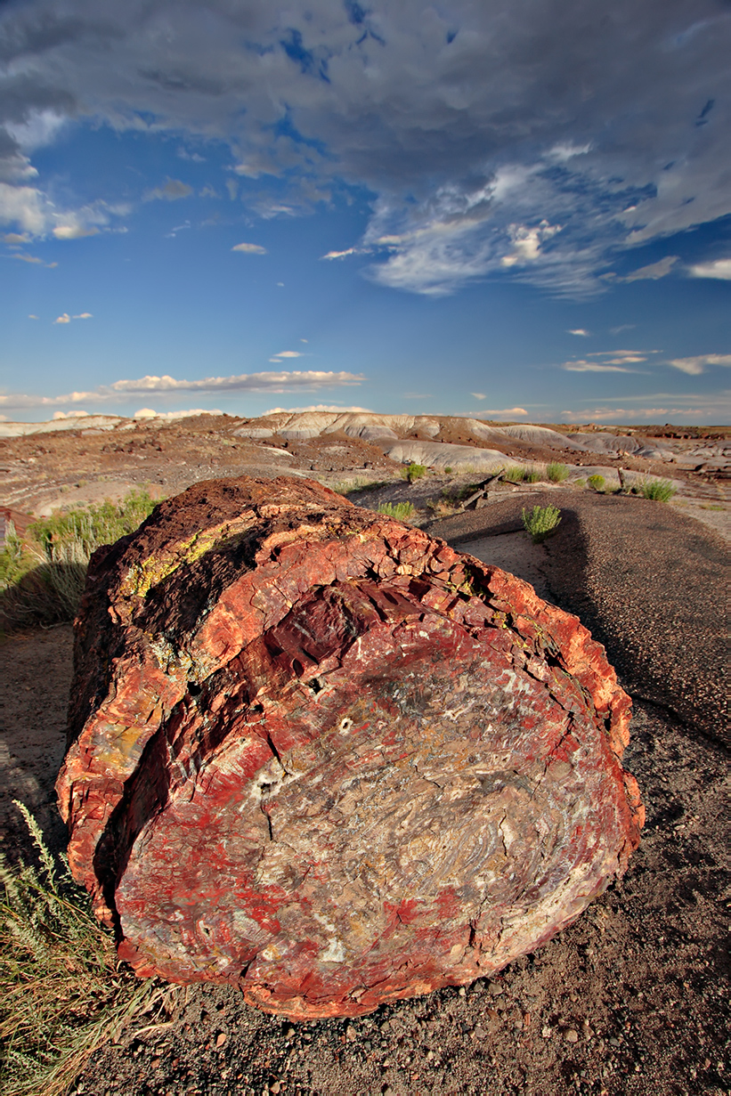 A petrified log in Petrified Forest National Park, Arizona, U.S.A.